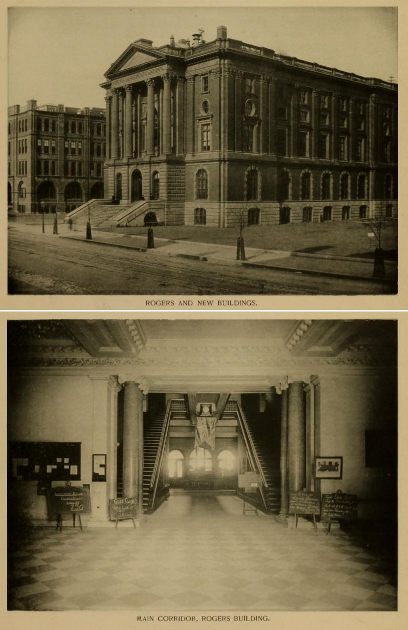 Images of the exterior and main hall of the Rogers Building, Massachusetts Institute of Technology, William G. Preston, architect